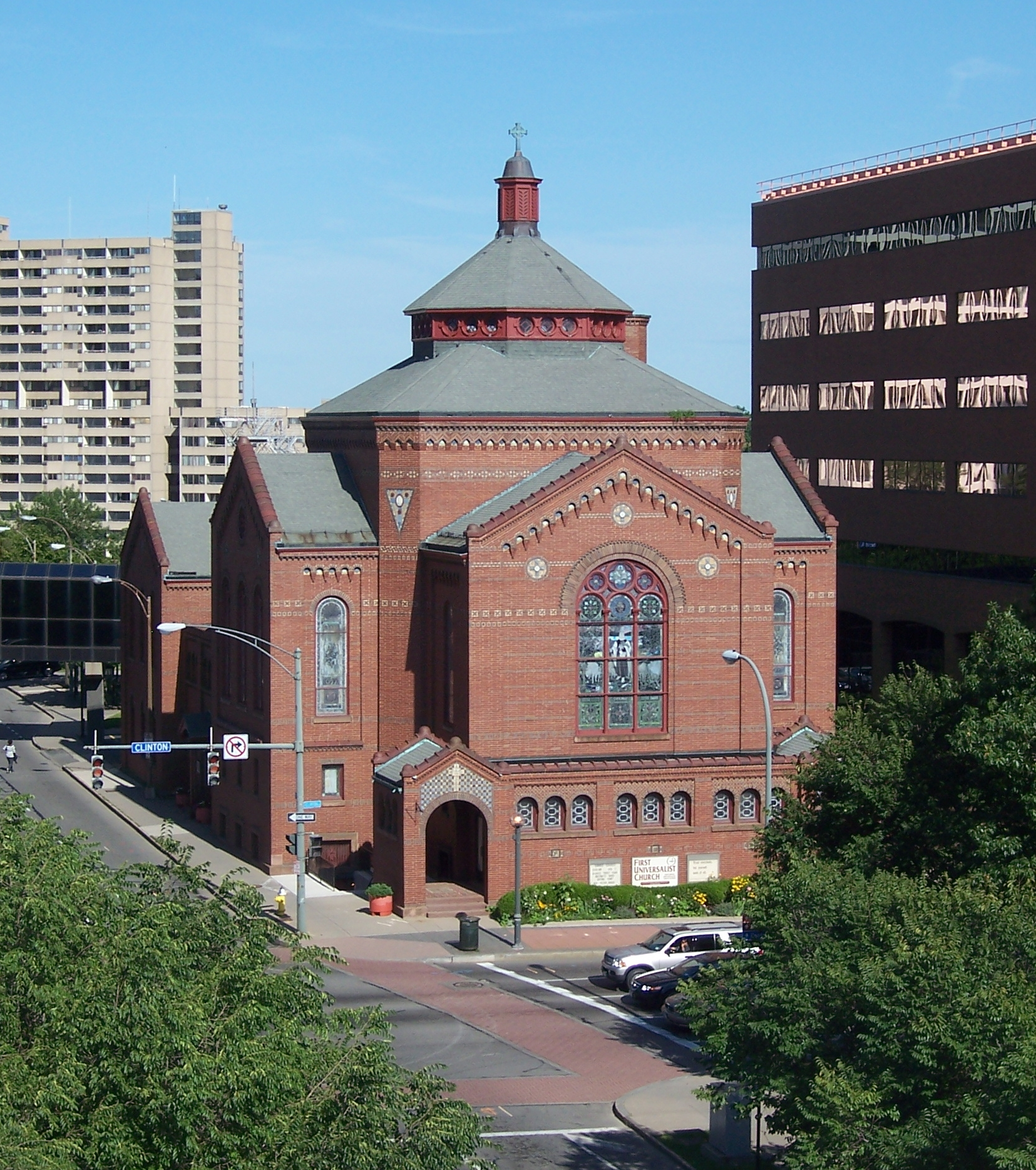 The First Universalist Church in Rochester. Construction began on 15 September 1907, with a dedication week in October 1908. The architect was Rochester's Claude Fayette Bragdon. The building was added to the National Register of Historic Places on 27 May 1971. Westbound New York State Route 31 runs south to north (right to left) along South Clinton Avenue in front of the church. (Eastbound Route 31 runs along a different street in this area.)